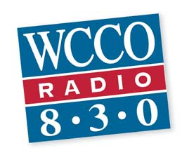 KXXR logo